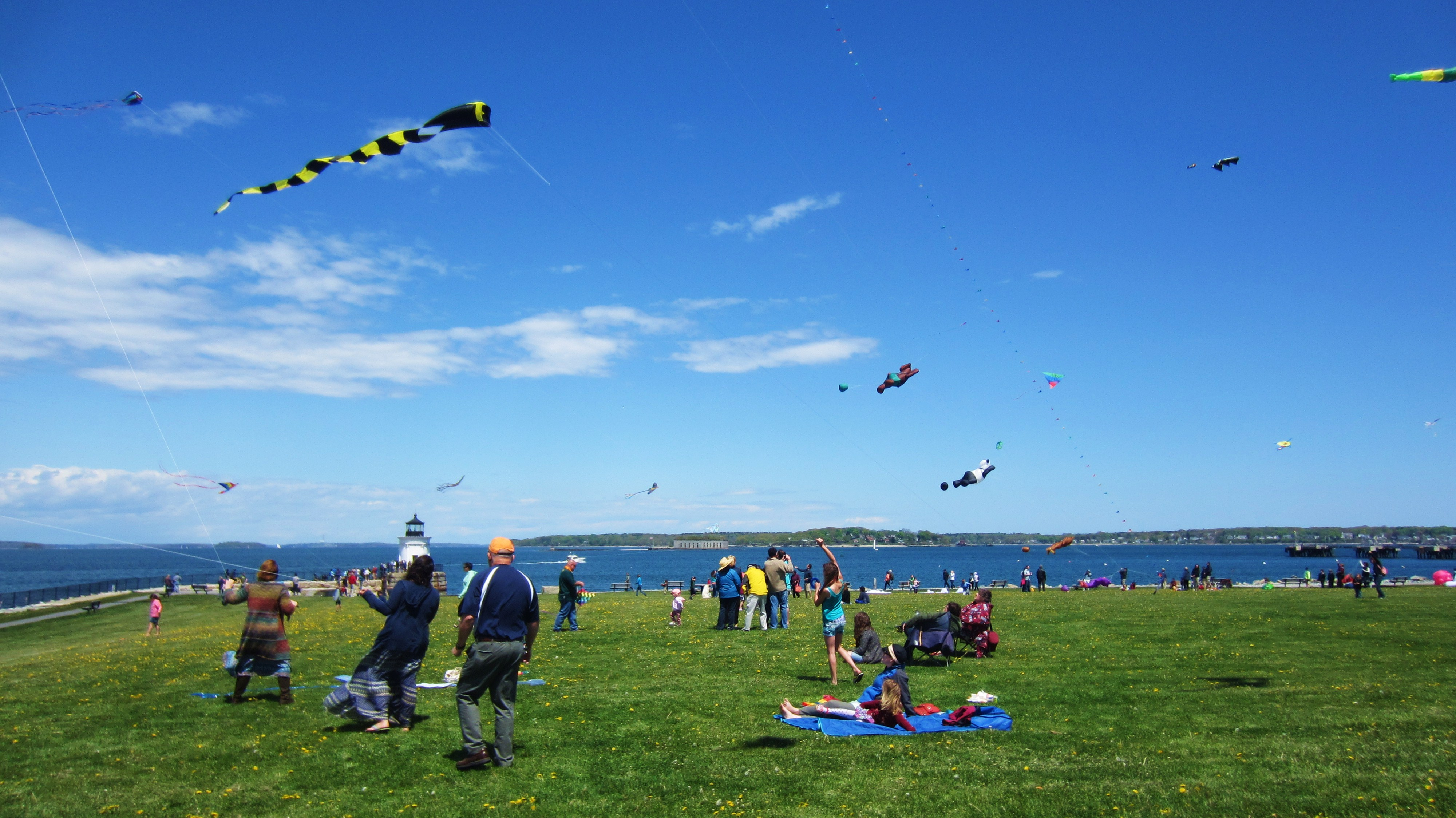 Kite Day in Bug Light Park